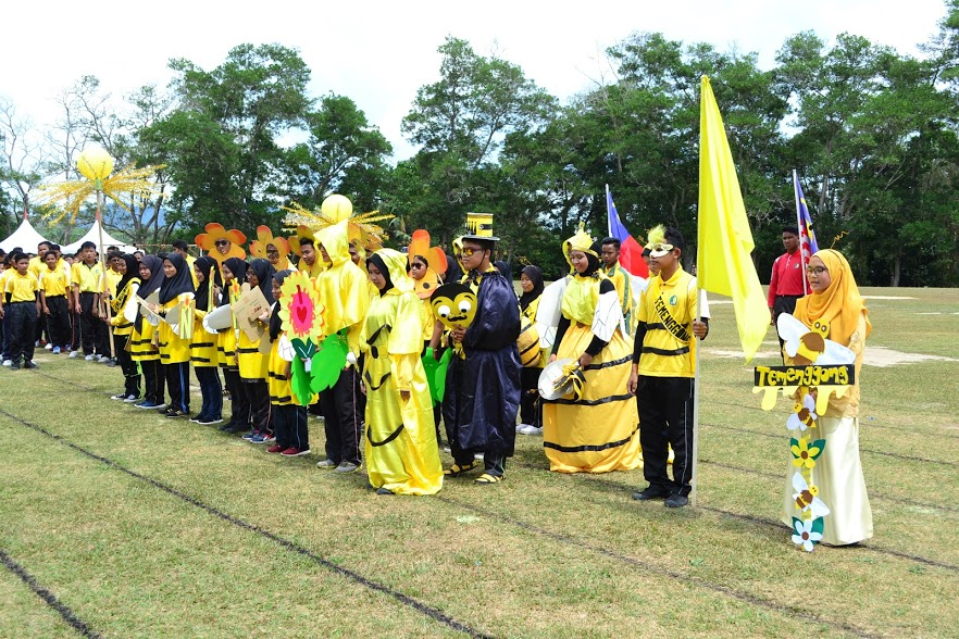 sukan 2018 (5)